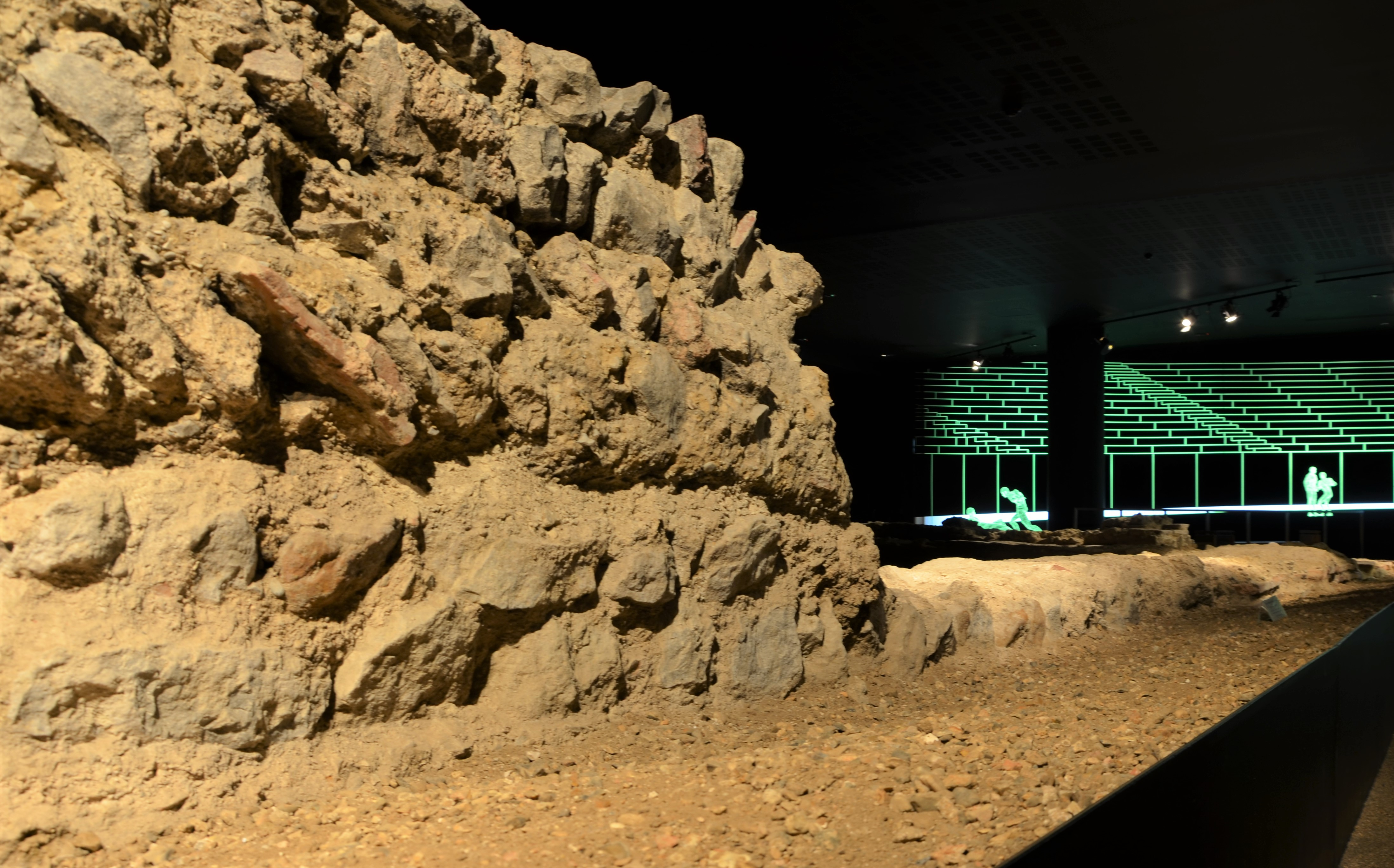 First century archeology beneath the Guildhall, in the City of London (or Londinium). From the official City website: "The City of London was under Roman rule for a fifth of its history. Around AD43, the Romans established Londinum: within 30 years, they are thought to have constructed a wooden amphitheatre, which received a major facelift in the early second century. The remains where discovered during the redevelopment of the Guildhall Art Gallery in 1985 and offer a fascinating insight into the bloody and barbaric theatre of Roman London. More than 7,000 spectators sat on tiered wooden benches in the open air to watch wild animal fights and the execution of criminals."